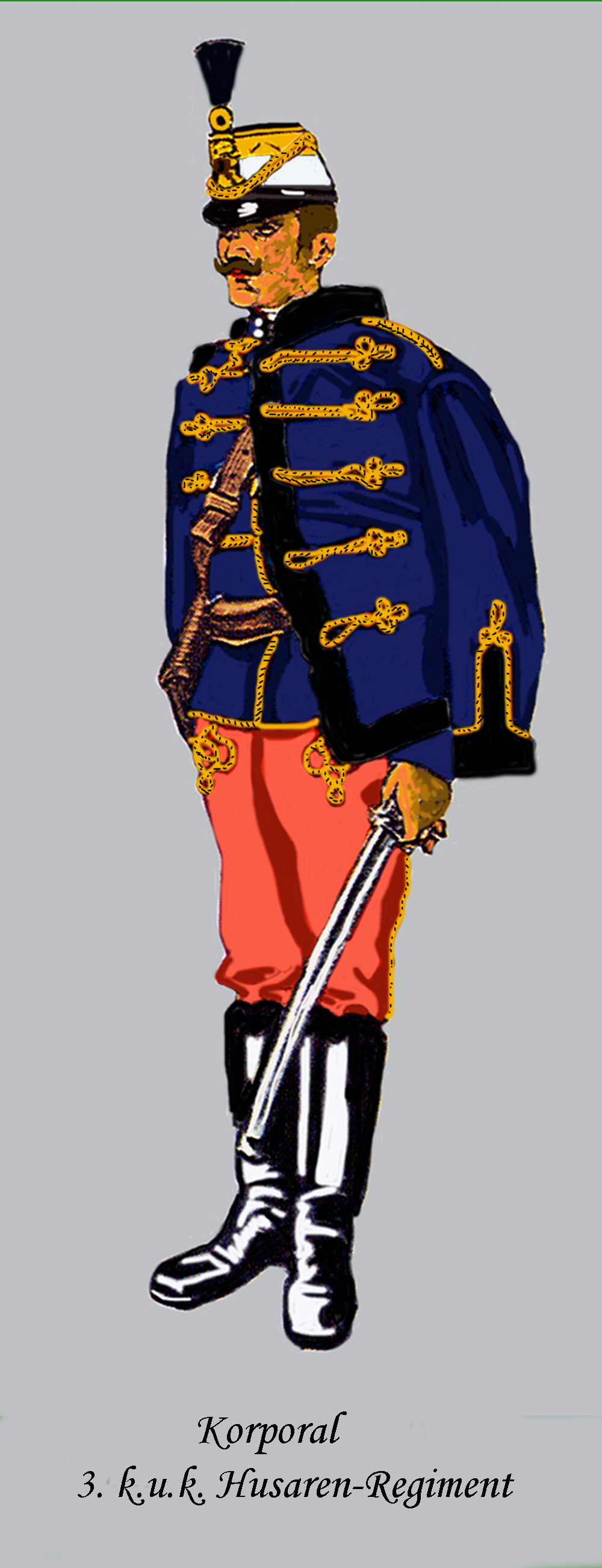 Corporal of the 3rd Austria-Hungarian Hussars-Regiment with Fur coat. Uniformstyle in use until about 1916